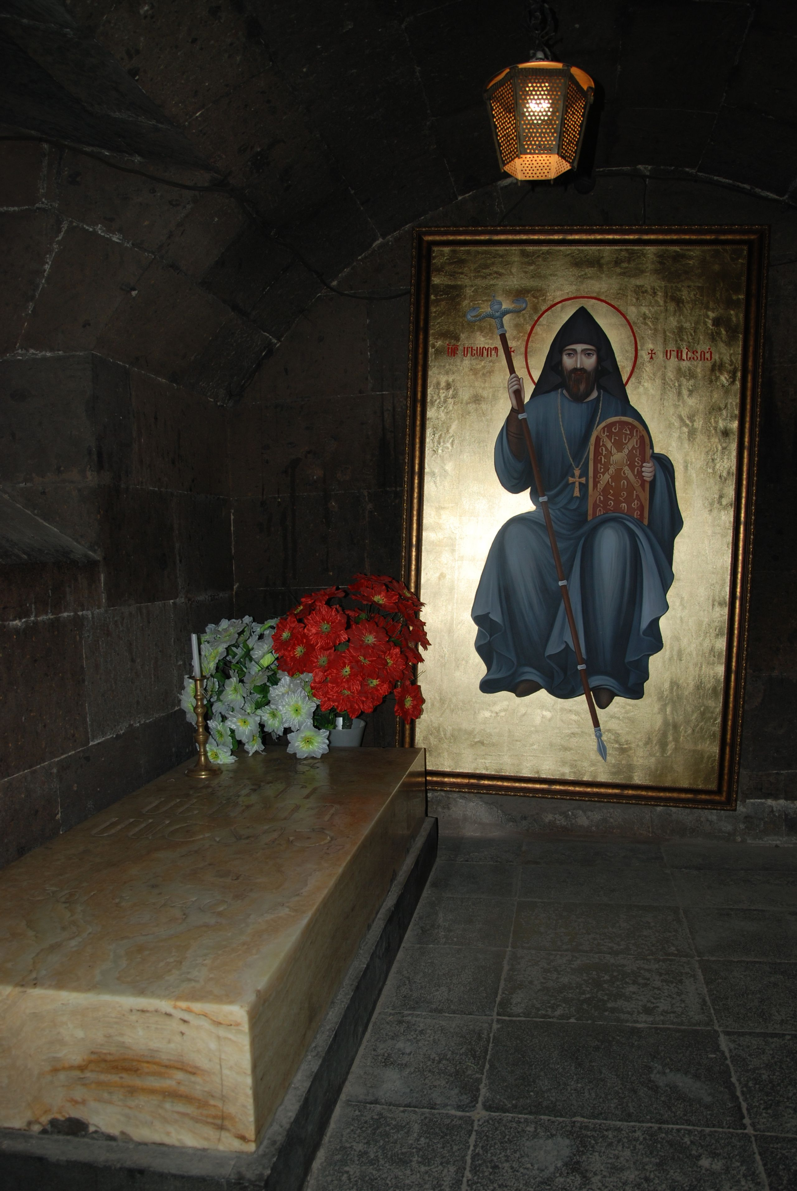 Oshakan, headstone of Mesrop